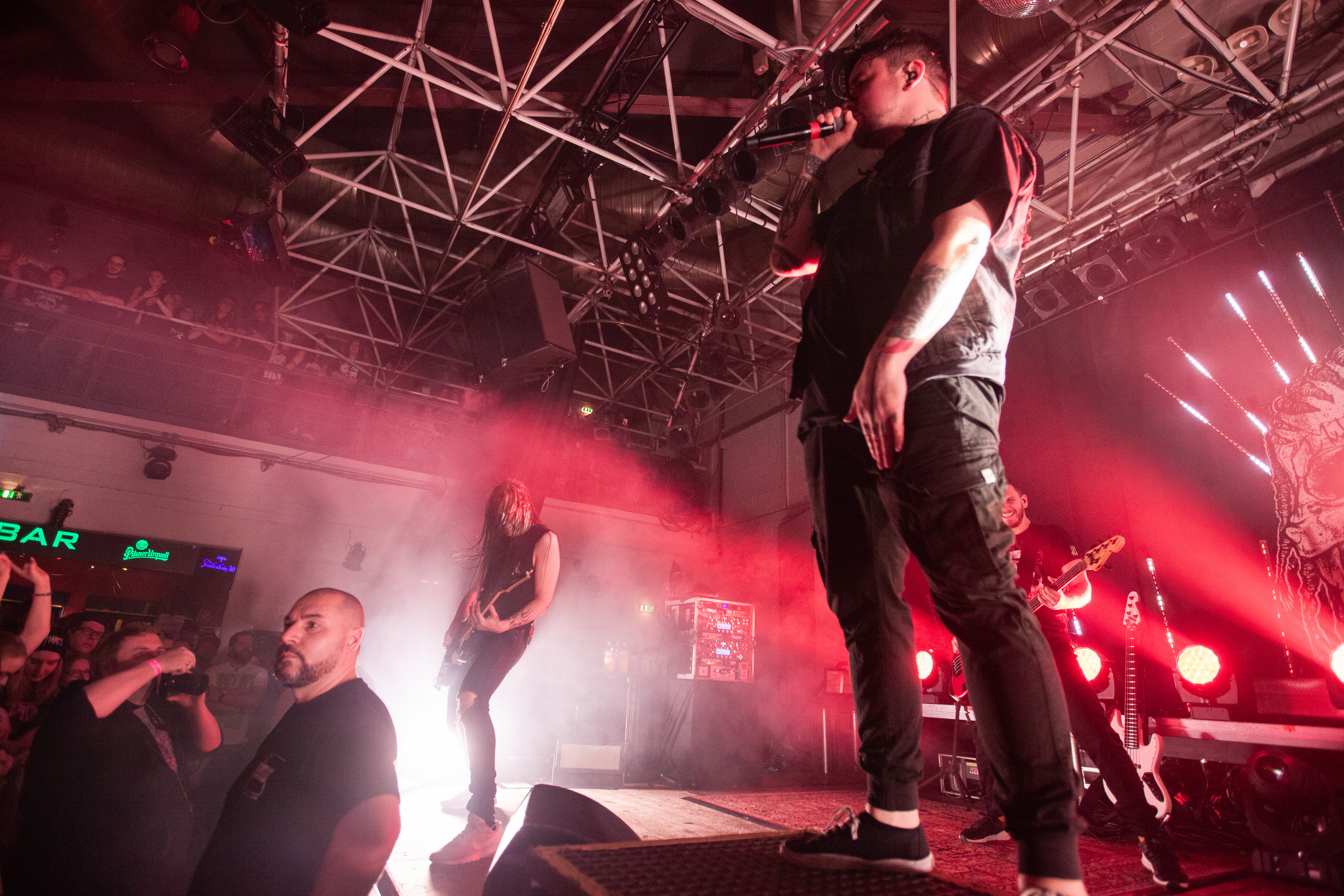 Bernhard Horn (Lead Guitar), Bastian BastiBasti Sobtzick (Vocals), Thorsten Becker (Base Guitar) of German metalcore group Callejon on Hartgeld im Club Tour (2019), ZAKK, Düsseldorf (DEU) /// leokreissig.de for Wikimedia Commons